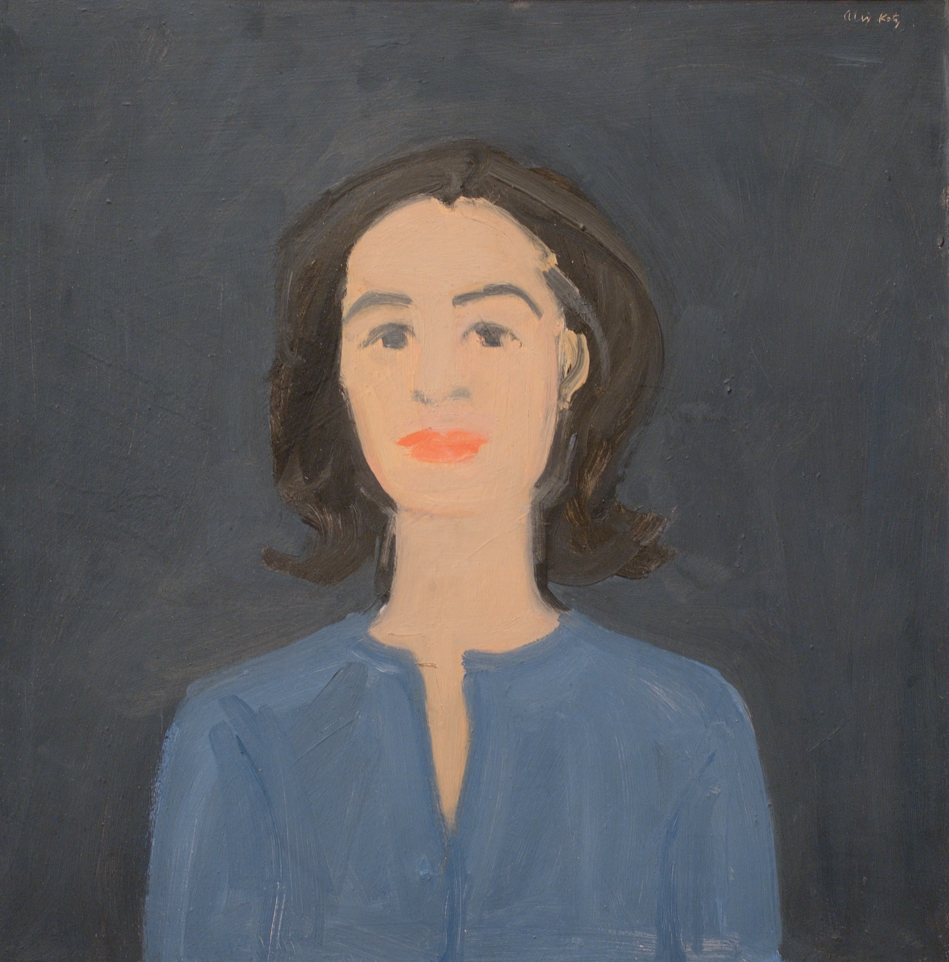 Alex Katz, Ada on Blue, 1959 1/15/18 #whitneymuseum